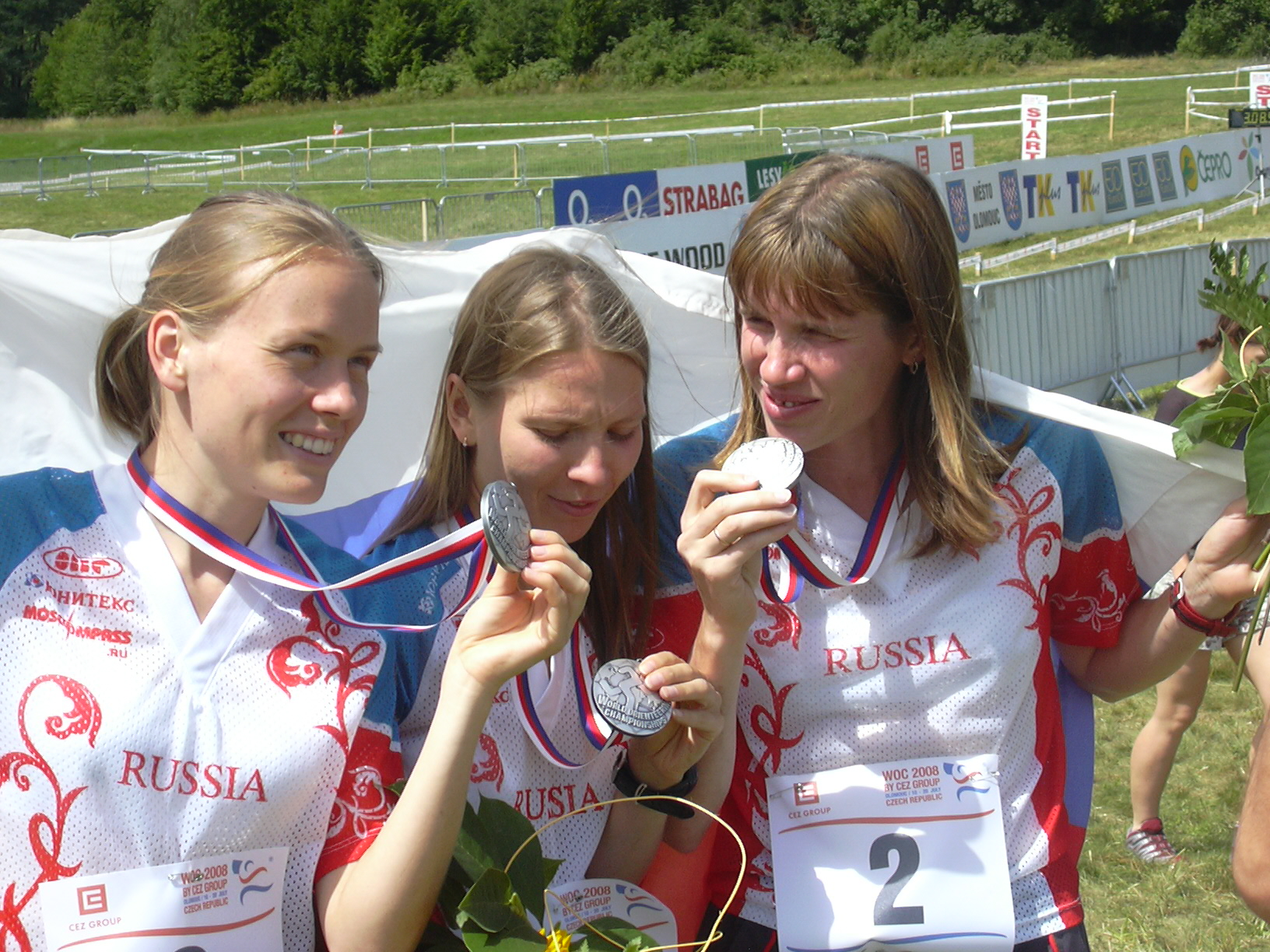 World Orienteering Championships 2008 in Olomouc, Czech Republic. On photo Russia Relay silver medal (Tatiana Ryabkina, Julia Novikova, Galina Vinogradova).